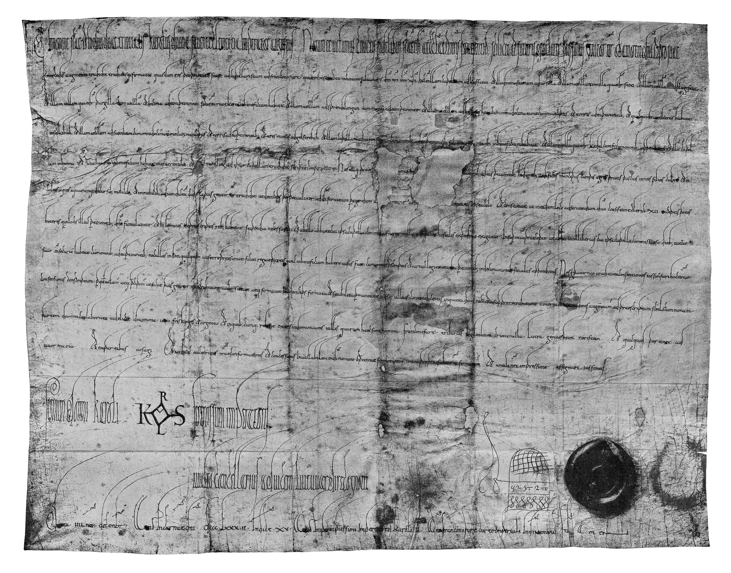 Frankfurt on the Main: Oldest preserved record of the Institut fuer Stadtgeschichte (Institute of urban history) from the 2nd december 882, signed by the carolingian emperor Charles III.